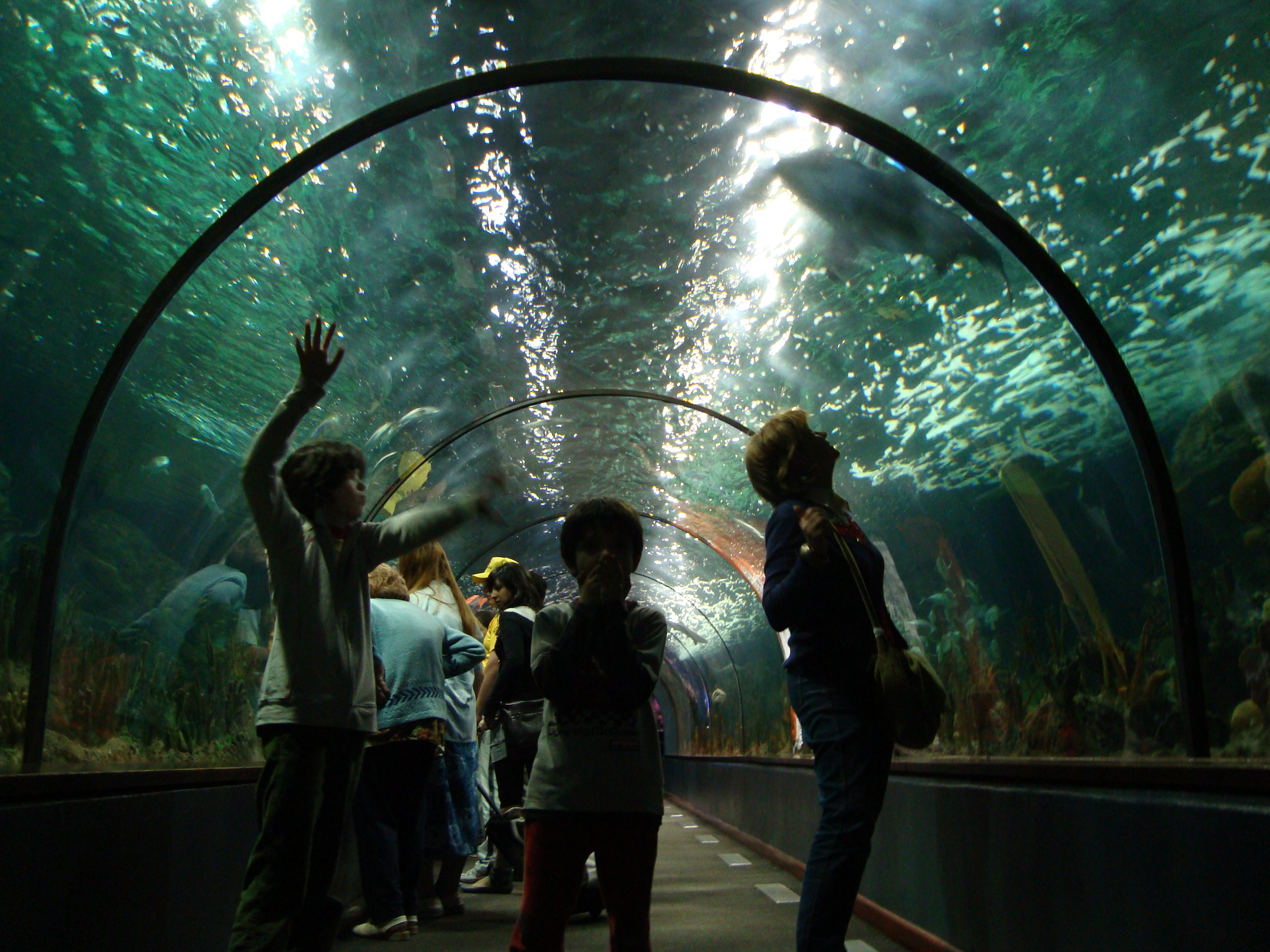 Loro Park aquarium in Tenerife